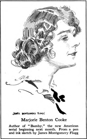 Pen and ink sketch of American author Marjorie Benton Cooke